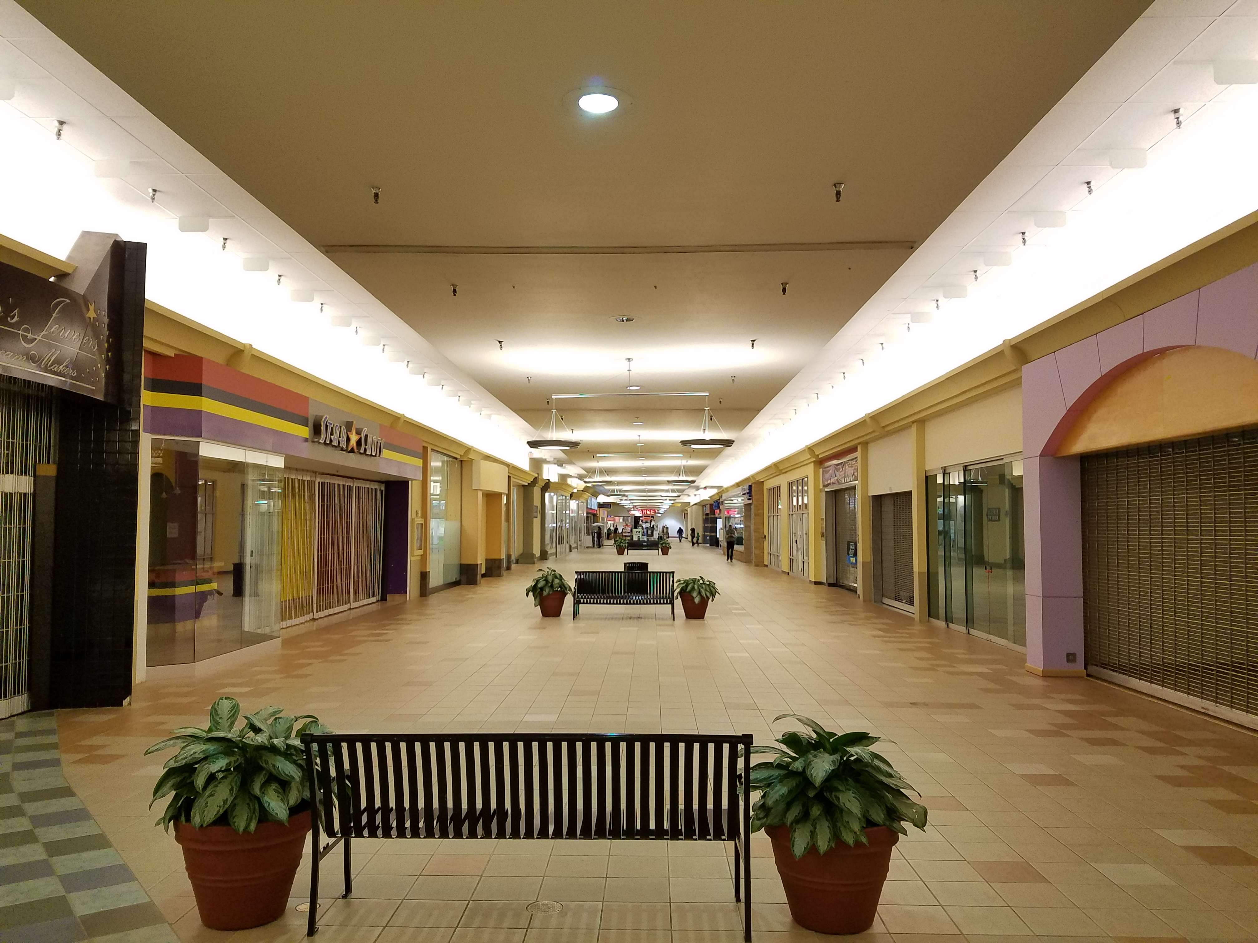 View of the main corridor inside Mall 205 in Portland, Oregon, USA in early 2018, with the numerous empty tenant spaces evident.